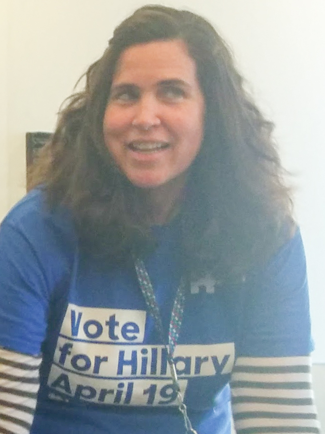 Robby and Steph